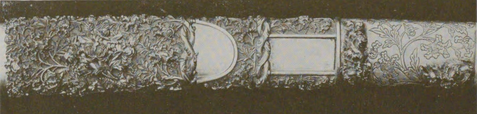 A tsuka of koshigatana koshirae made in Nambokucho period at Aso-jinja, Aso, Kumamoto prefecture. An Important Cultural Property of Japan which was lost after World War II.